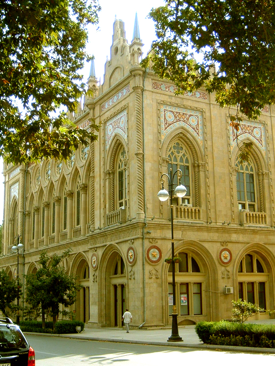 Historical Ismailiyya building in Baku, Azerbaijan, which nowadays is the office of the Presidium of National Academy of Sciences of Azerbaijan